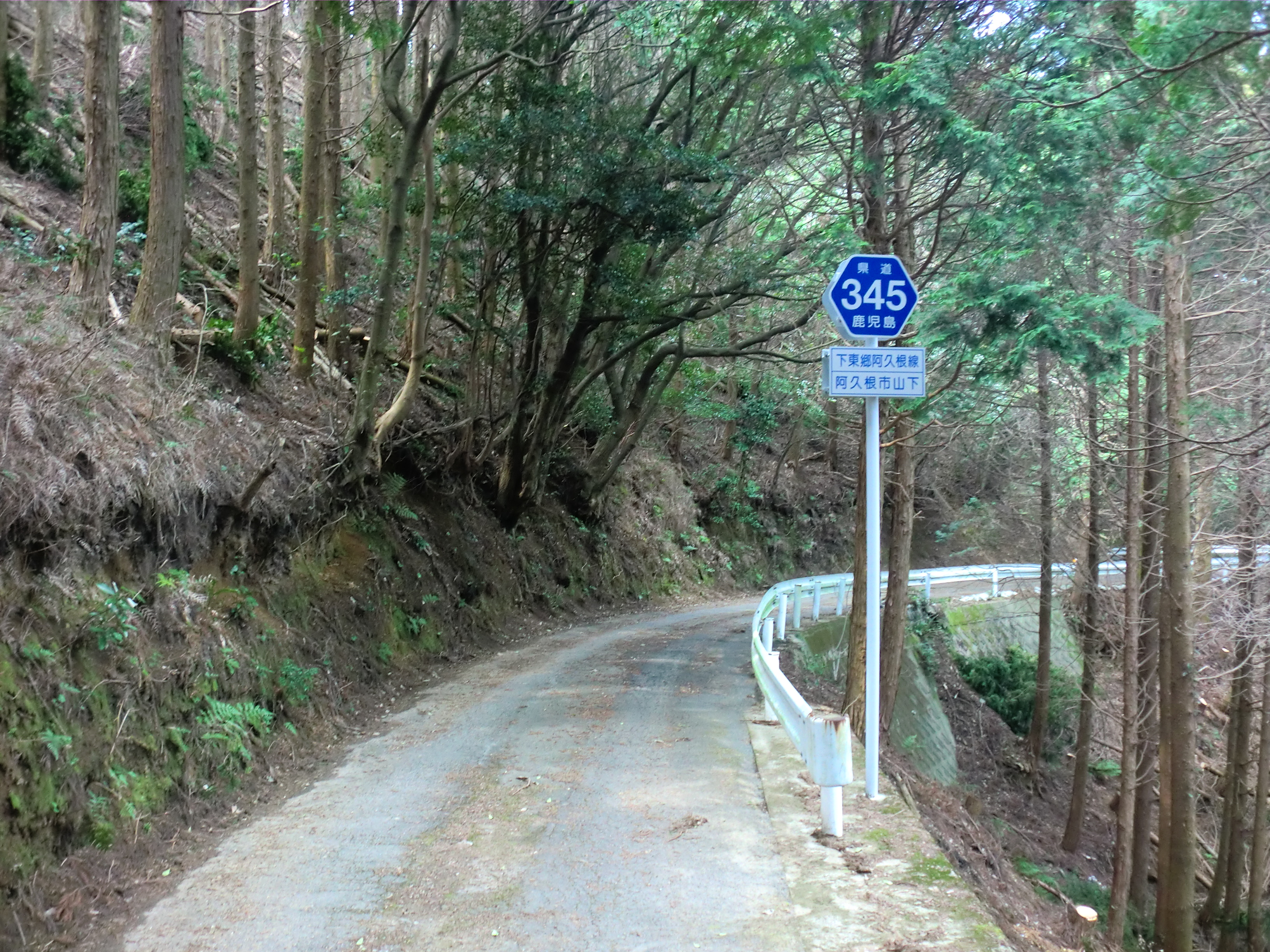 The Kagoshima Prefectural Road Route 345 in Akune City